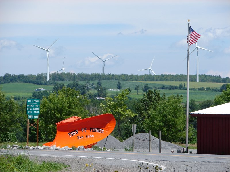 I took this photo myself on 7/25/2006. - Bluebank83